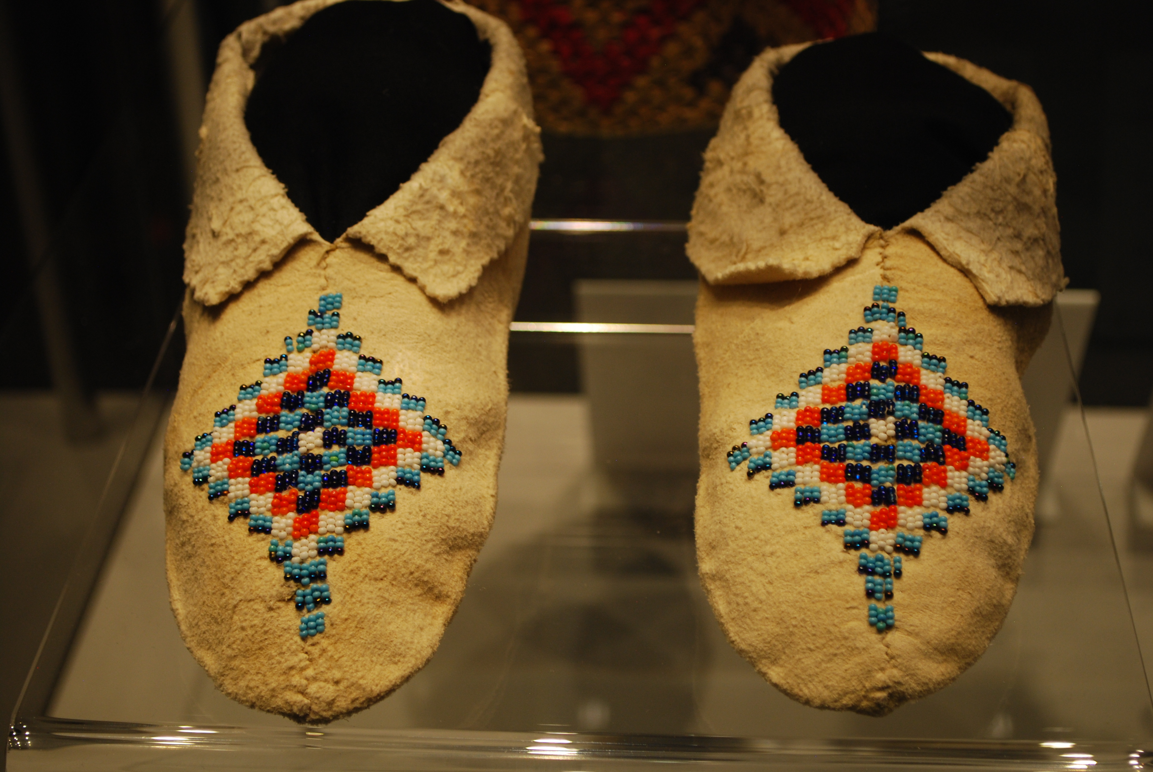 Kickapoo moccasins by Teresa Anico on display at the México megadiverso: Culturas indígenas contemporáneas event at the Mexico City airport